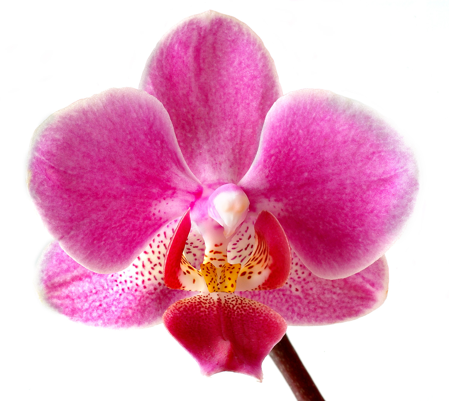 This image shows an artificial hybrid of the Orchidaceae Genus Phalaenopsis.